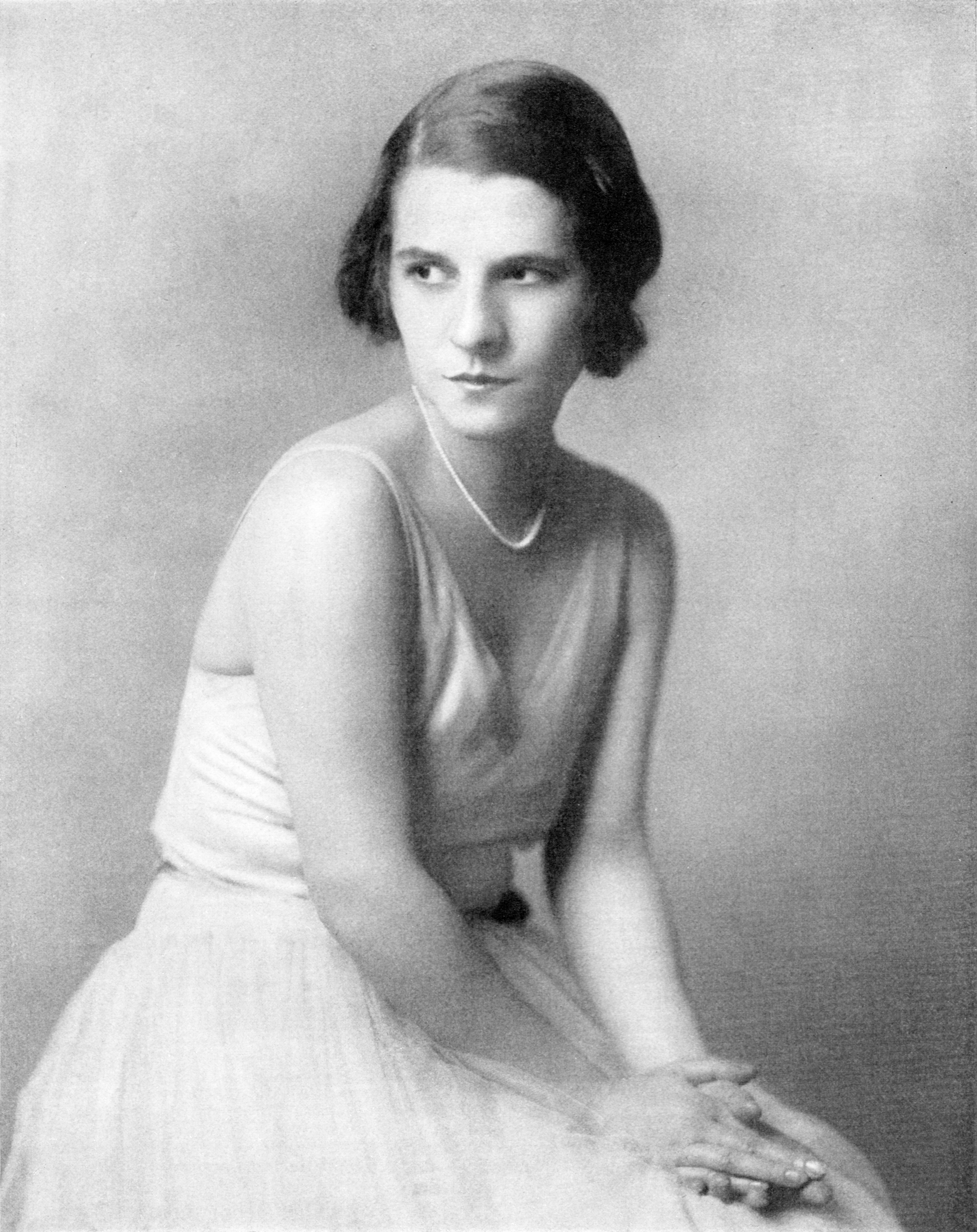 Photograph of actress Ruth Gordon Caption reads as follows:Miss Gordon, last seen in S. N. Behrman's "Serena Blandish," has gone to the Theatre Guild for its production of Philip's Barry's "Hotel Universe"